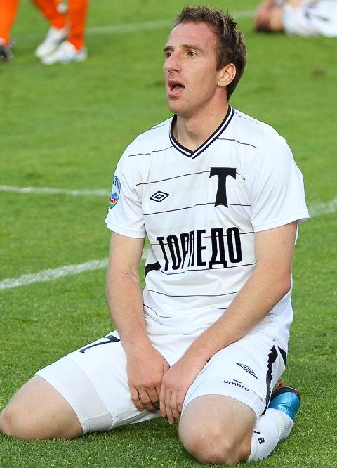 Aleksandr Yerkin with FC Torpedo Moscow.